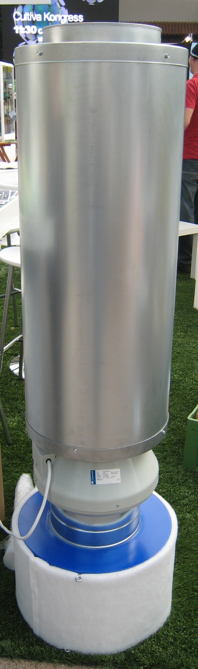 A muffler (top; silver) above an axial fan (middle; white with cable) and a carbon filter (bottom; white with a blue top).